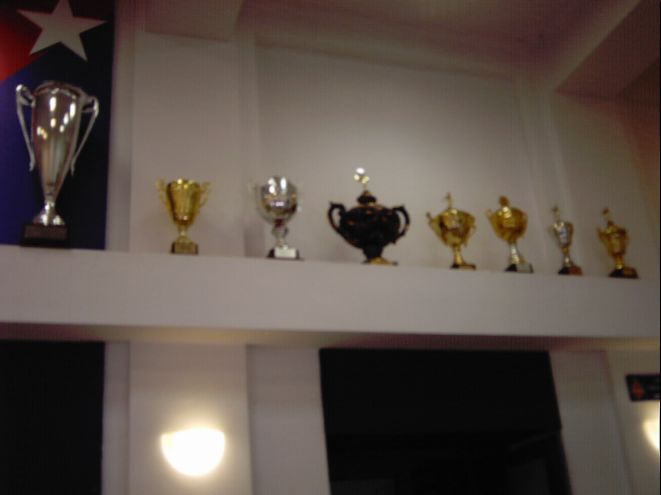 Wisła Kraków museum.